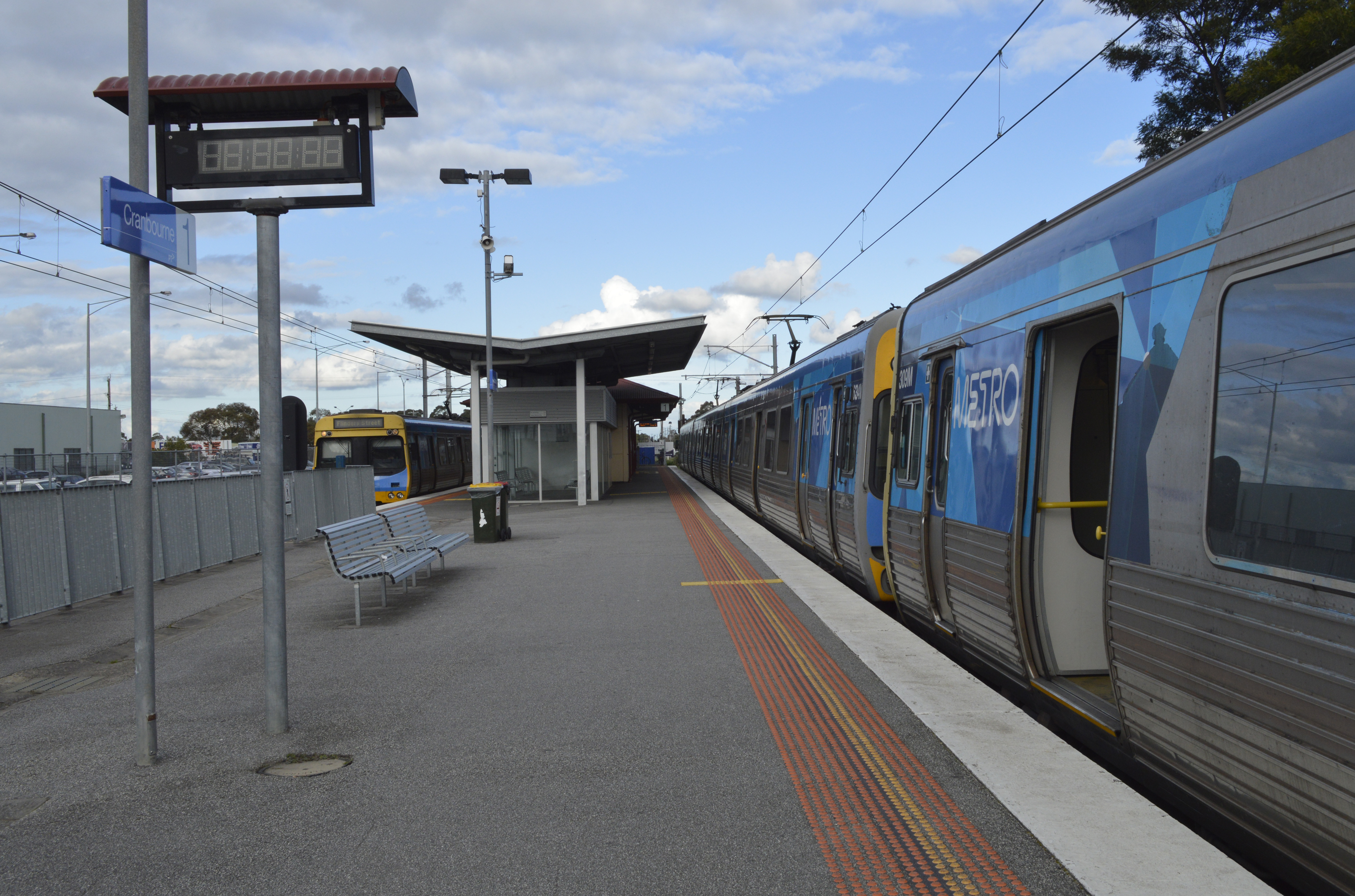 Station overview in August 2014.